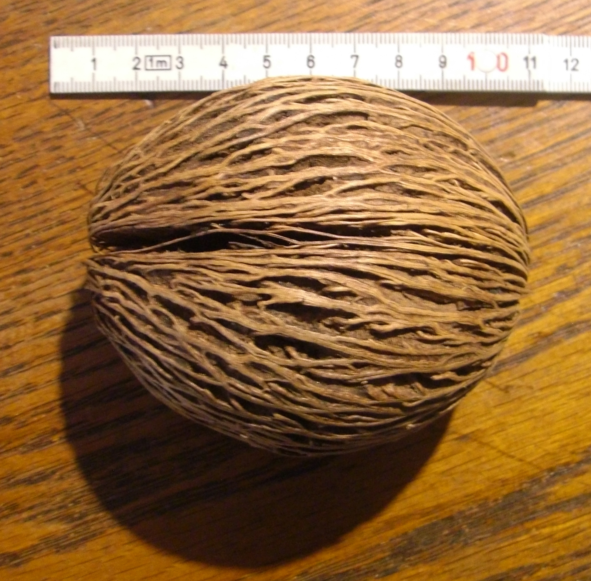 Seed of Cerbera odollam, called Mintolla (poisonous!)